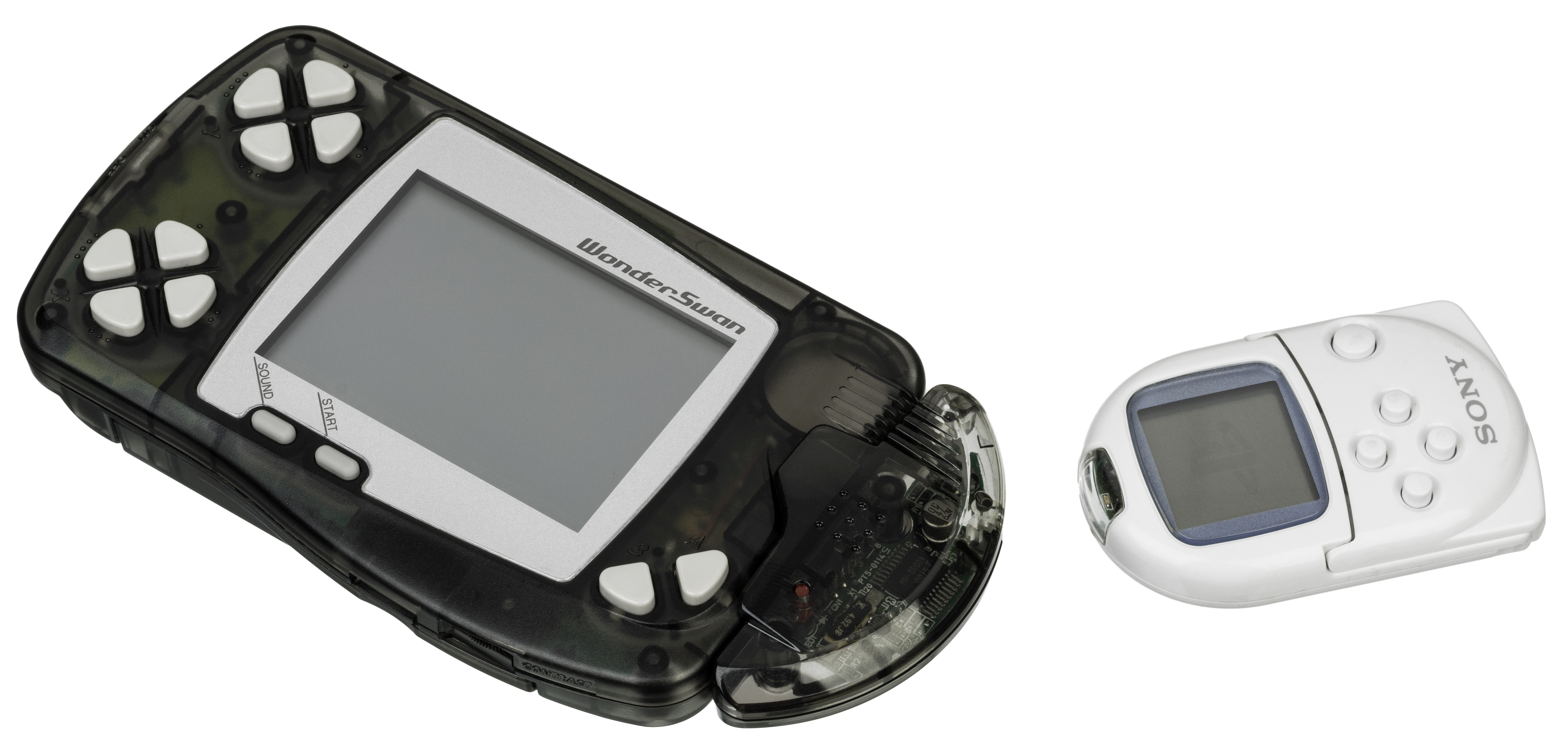 The Bandai WonderSwan, a handheld gaming console released in 1999. This is the first model of the Japan-only WonderSwan series and features a monochrome screen. Shown attached to the WonderSwan is the WonderWave, an infrared communicator that attaches to the accessory port. The WonderWave could be used to transfer data between two WonderSwans and could also communicate with the Sony PocketStation. PocketStation interaction was limited and only avaiable with a few Bandai games for the PlayStation.